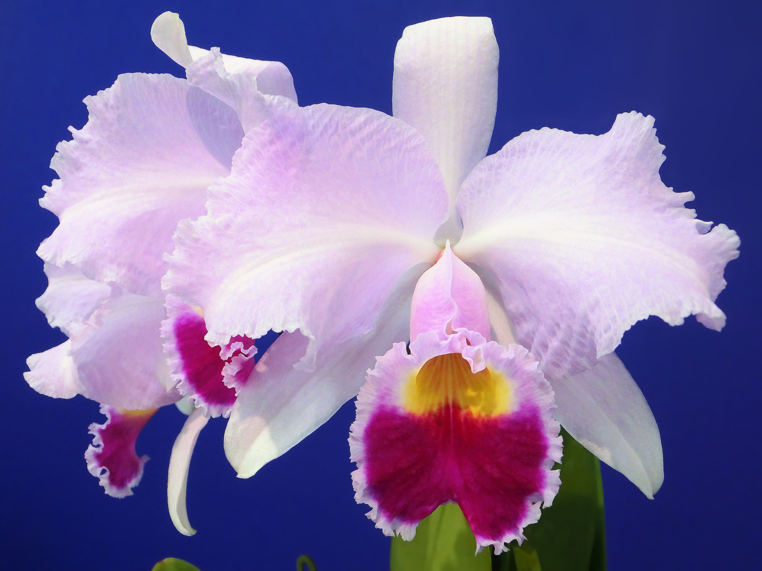 Cattleya trianae tipo 'Baronessa' N.S. (148 X 150mm) 1 stem 3 flowers 41st Yokohama Orchid Show in SOGO Department Store, Yokohama Kanagawa Japan.